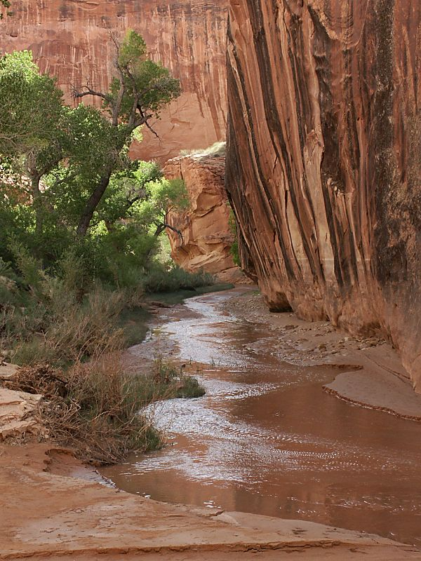 Canyon walls and streambed in Coyote Gulch, a tributary of the Escalante River.